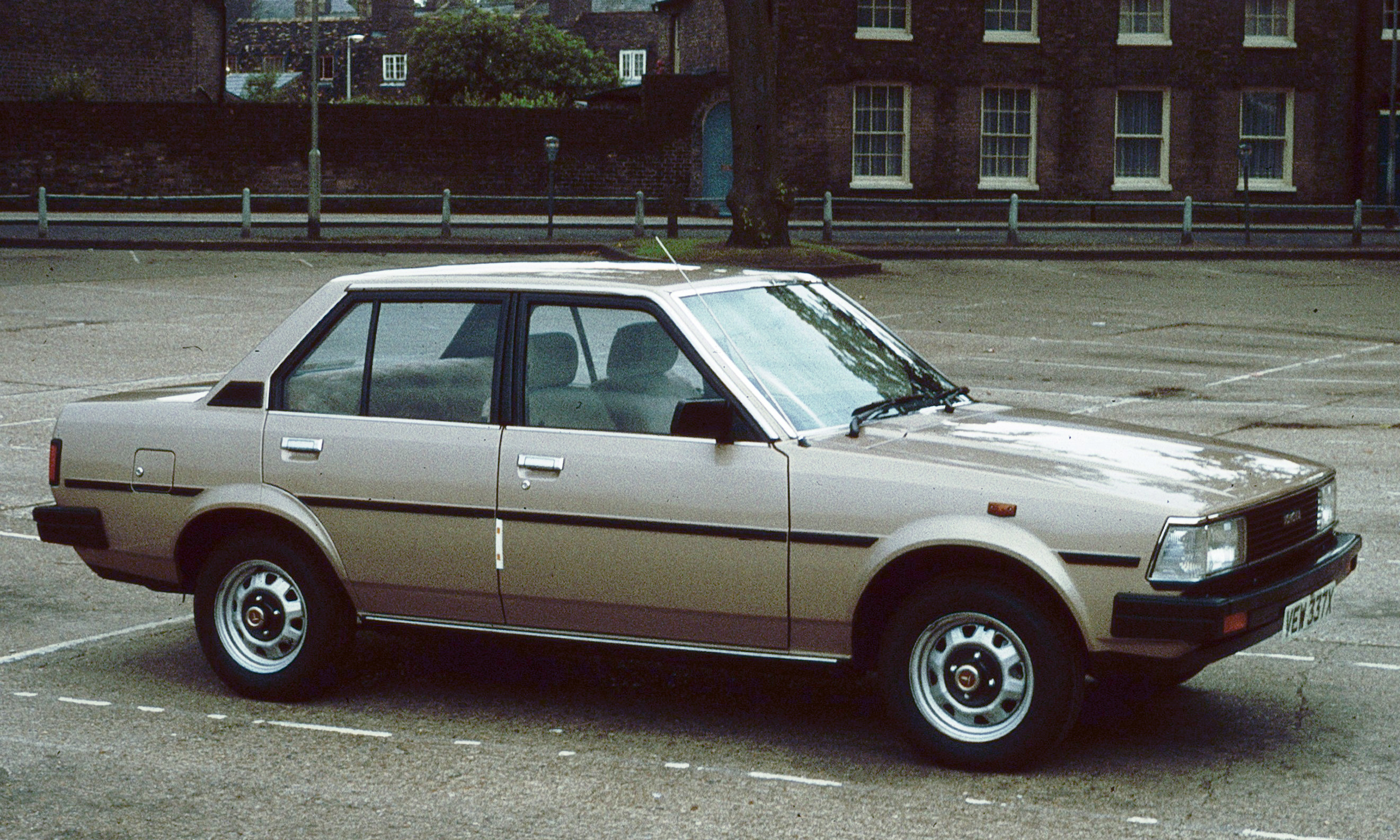 Toyota Corolla E70 1981 when new, in New Square, Cambridge before the city centre was closed off to people who use their own cars.